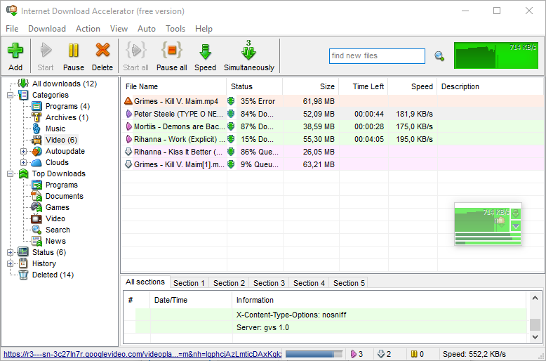 Internet Download Accelerator